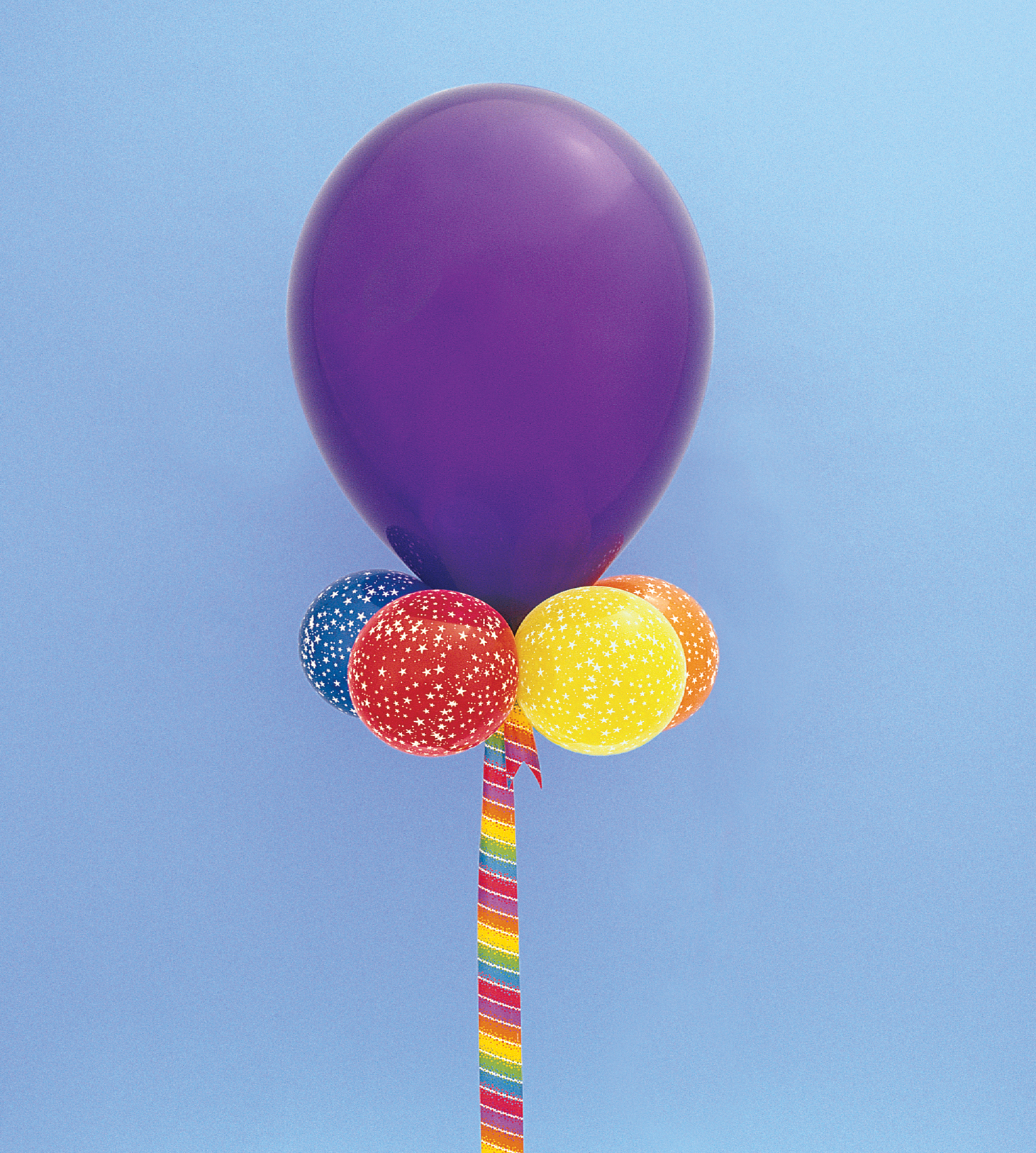 purple latex balloon 24" in diameter with a collar of 4 11" diameter latex balloons